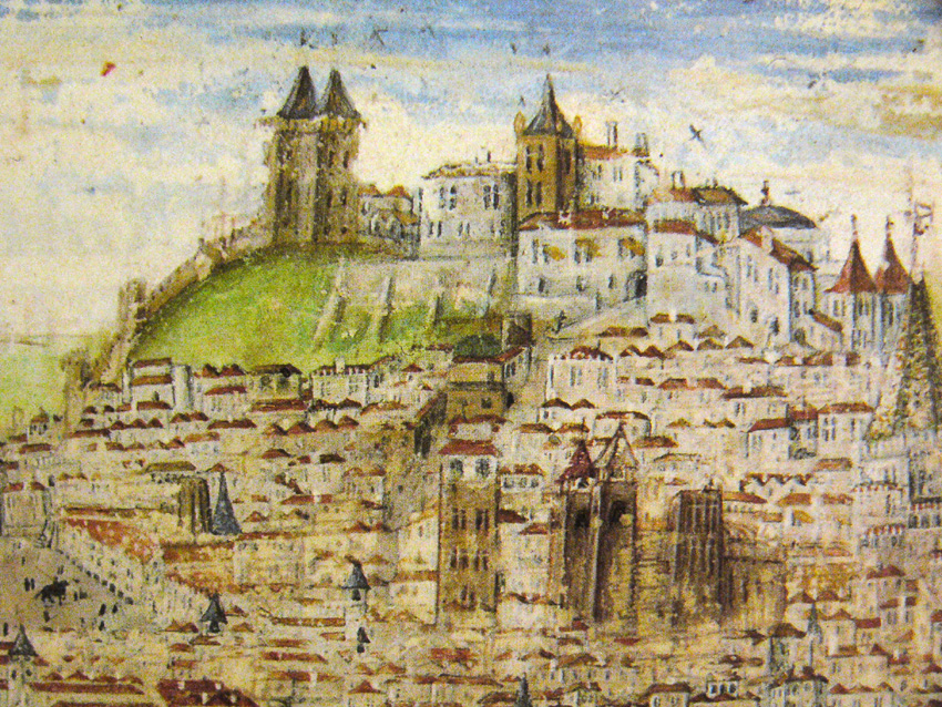 View of Lisbon Castle in an illuminated manuscript